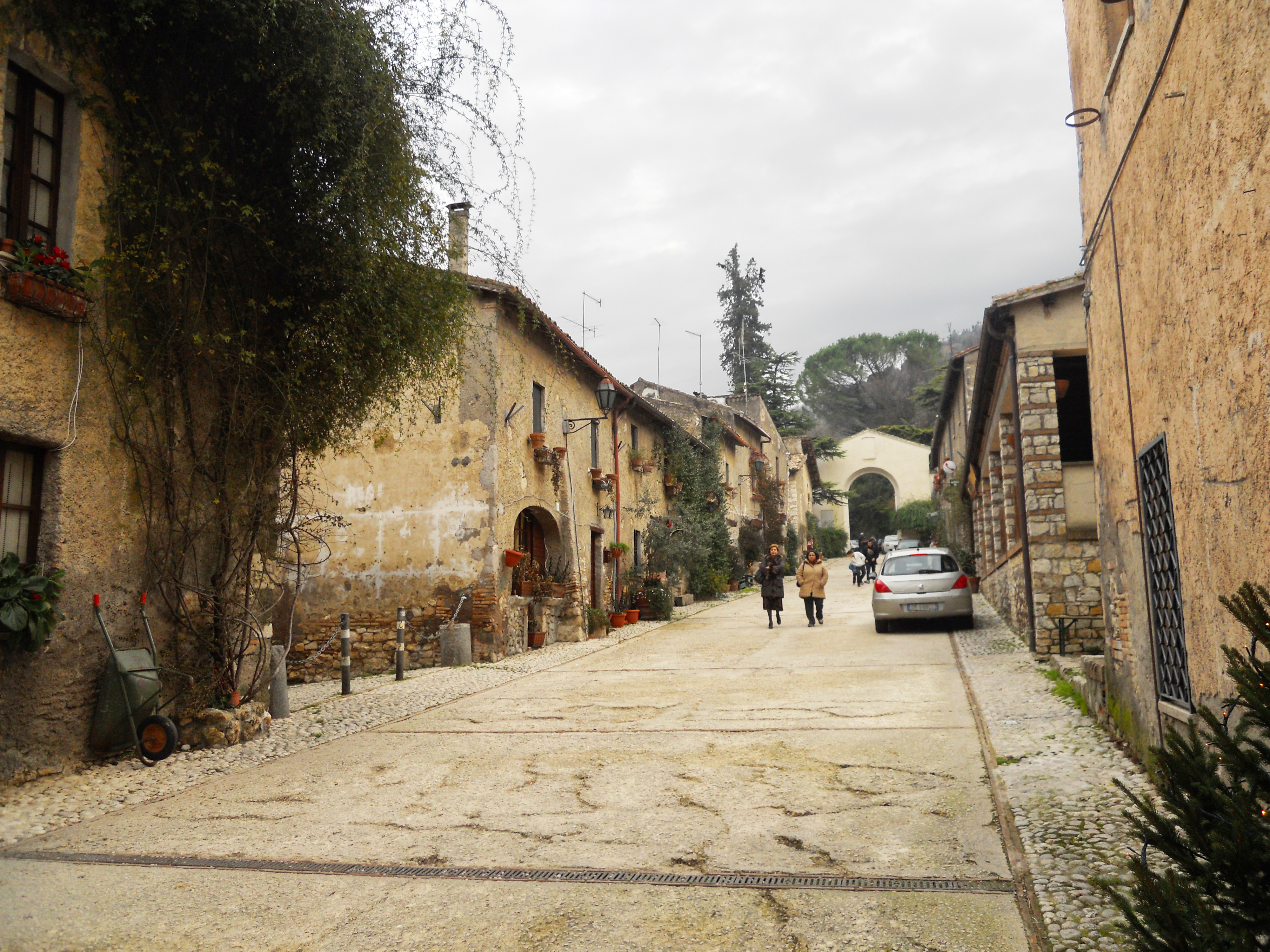 The hamlet around Farfa Abbey (Lazio, Italy)